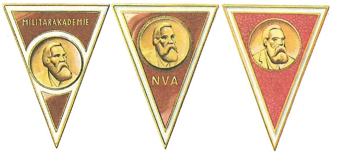 Graduates badge for individuals received education of a Military Scientist at the GDR “Military University Friedrich Engels“, three different versions.